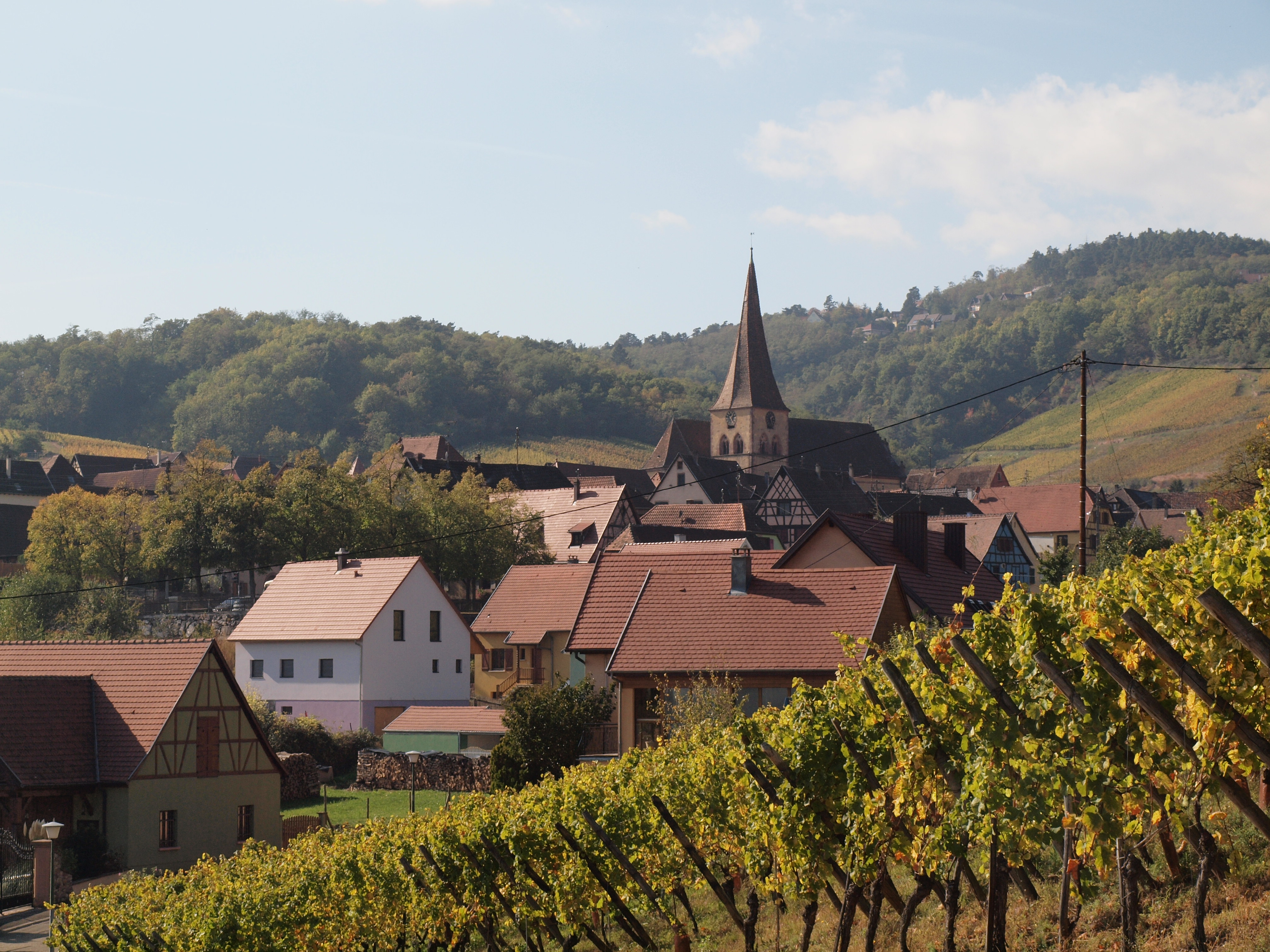 Niedermorschwihr through the vineyards, Alsace, France